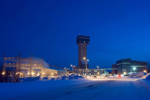 Photo of the Goldex Mine Headquarters